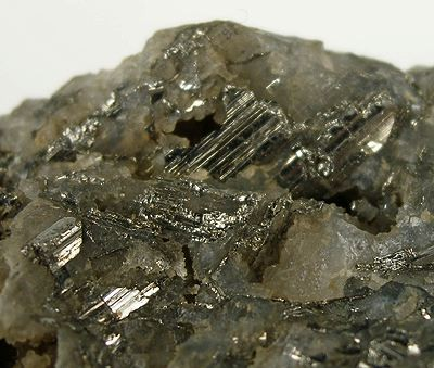 Calaverite Locality: Cripple Creek, Cripple Creek District, Teller County, Colorado, USA (Locality at ) Size: 6 x 5 x 3.5 cm. Calaverite is a very rare crystallized gold telluride species, found in good crystals over 1mm in only a relatively few locations. The most classic old US locality for the species is from the silver and gold mines in Cripple Creek, Colorado (late 1800s and early 1900s). Most available specimens come from old collections and museum deaccessions. This is a very rich specimen for sheer quantity of platy calaverite crystals embedded in the matrix, showing brilliant metallic flashes from all sides of the specimen. Many of the embedded crystals reach 1 cm, some clusters more so. This came from Harvard via exchange to Phil Scalisi to George Elling, though no label accompanies the piece.